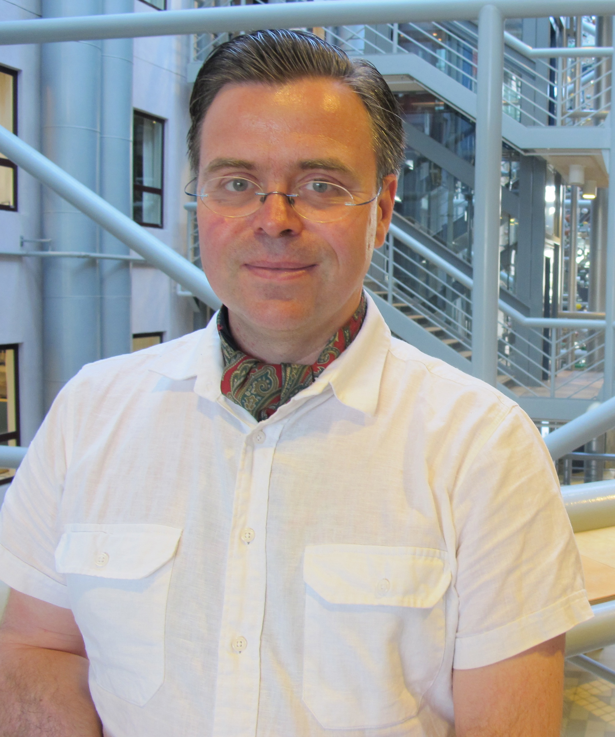 Dr. Andreas Önnerfors, Reader in the History of Sciences and Ideas